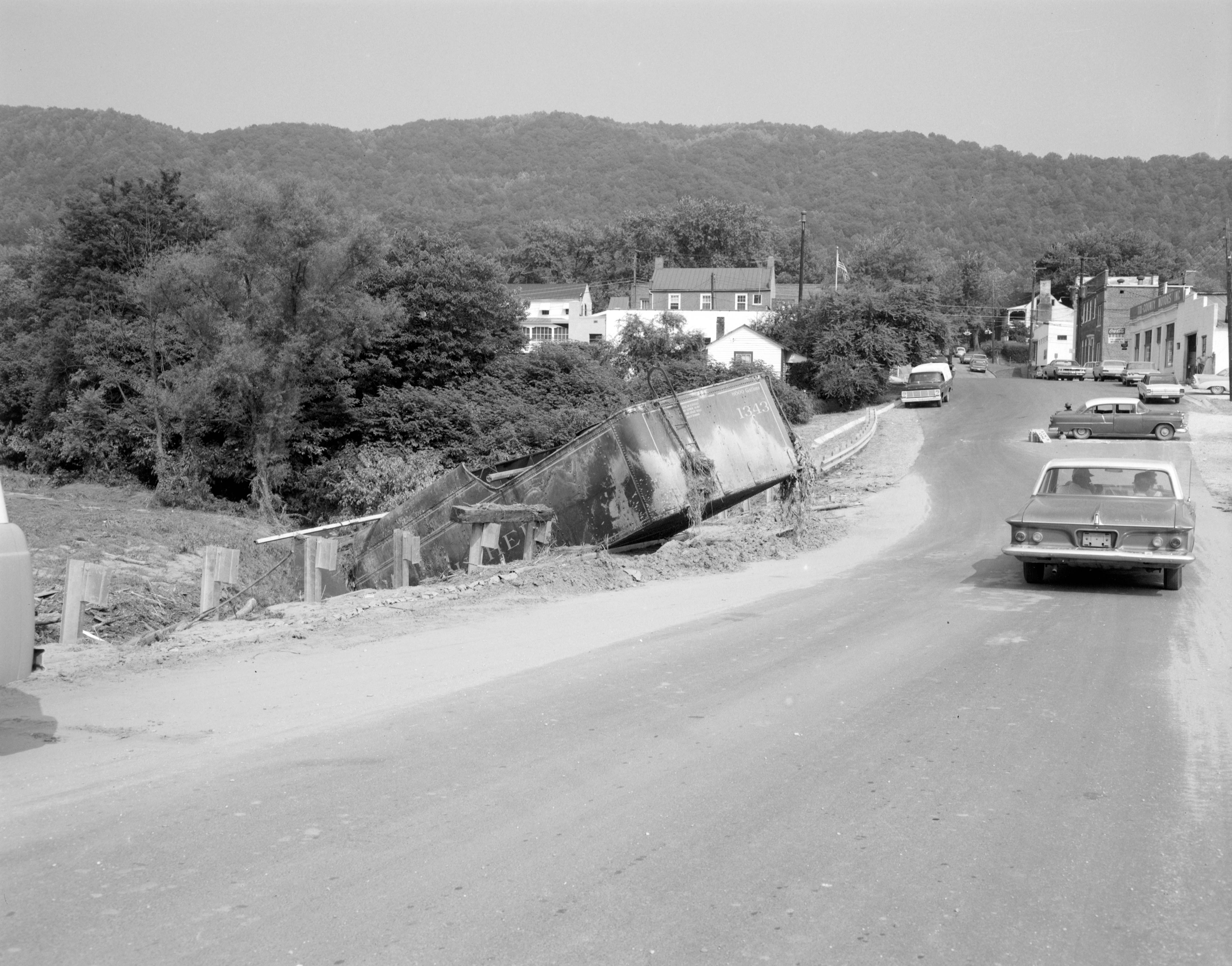 The Lovingston access road to Rt. 29 had some debris and wrecked vehicles along the road. Located in Nelson County. No. 69-2273, Virginia Governor's Negative Collection, Library of Virginia.